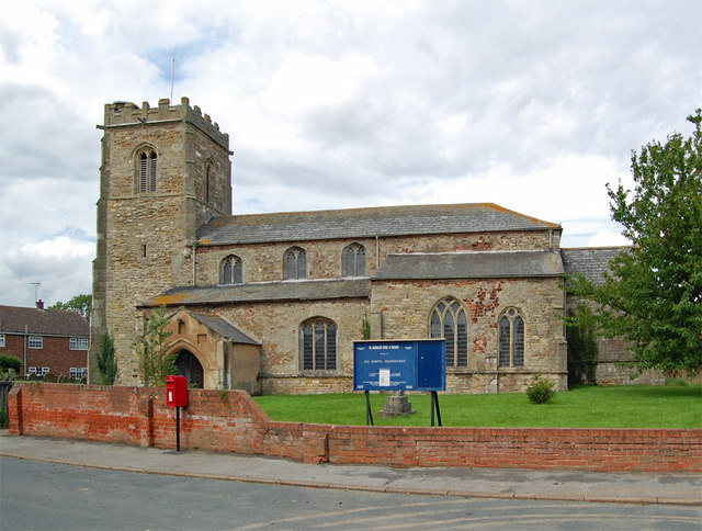 All Saints' parish church, Adlingfleet, East Riding of Yorkshire, England seen from the south."Adlingfleet was the third richest 'living' in England. This becomes no less astonishing but more significant when we discover that numbers one and two were Lindisfarne and Bamburgh. They were the ecclesiastical and regal headquarters of the Northumbrian Kingdom and the wealth of those two churches must have been based not on the intrinsic economic prosperity (or even the size of the population) of the area but on the generosity of the Royal endowments. The same story can be told of the Aetheling's Church at Adlingfleet. The mystery of the Church's mediaeval wealth finds some explanation if Adlingfleet was a Royal Saxon centre of some ecclesiastical importance." See link for further information.